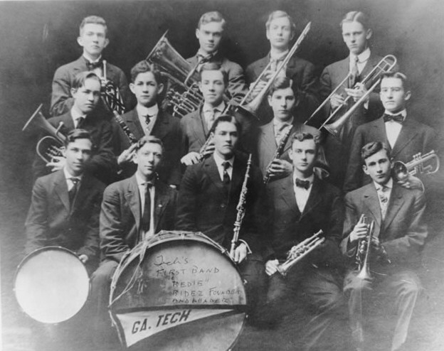 Georgia Tech's first band photo taken from the Blueprint.